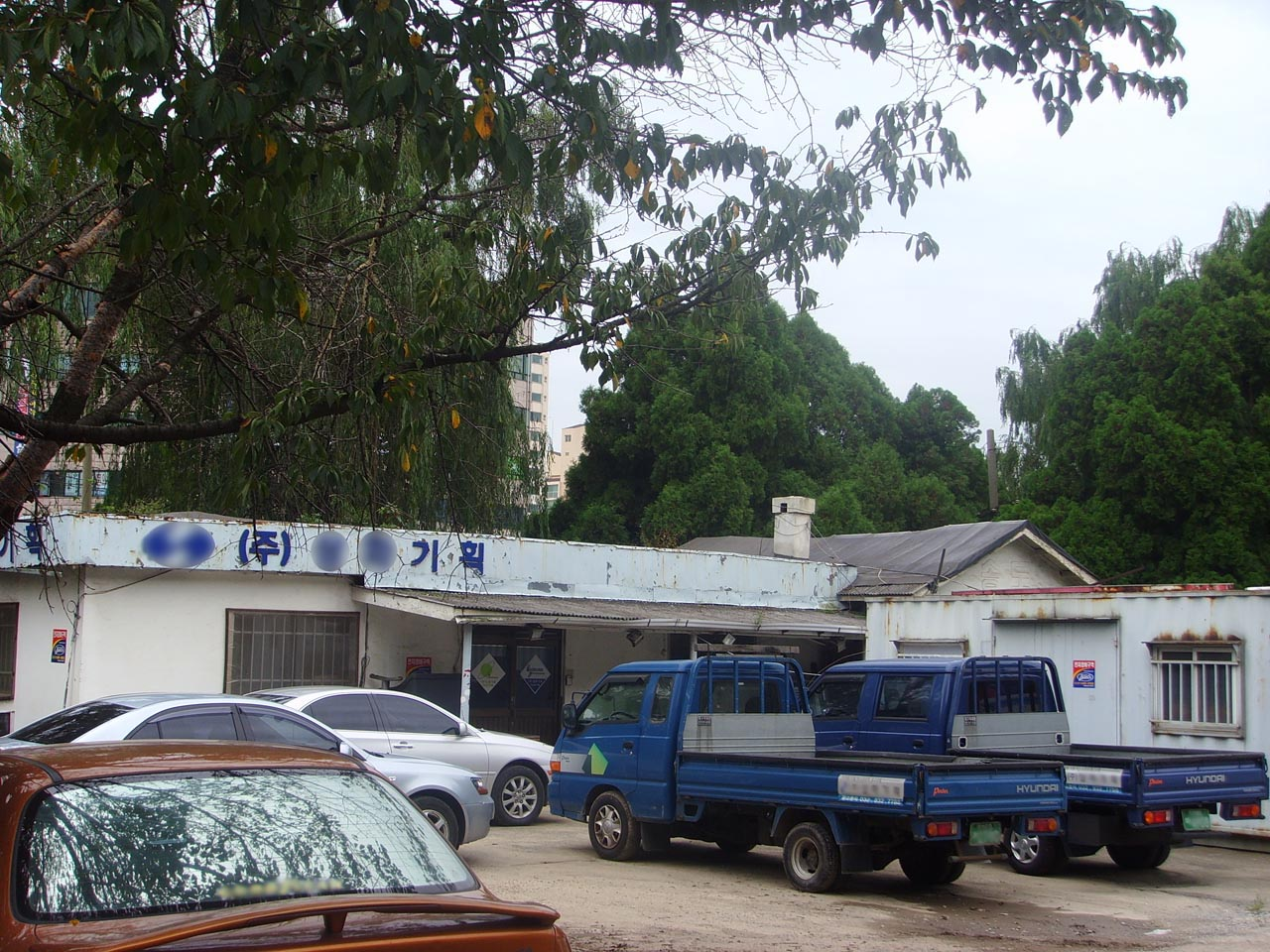 Songdo Station (Suin Line)